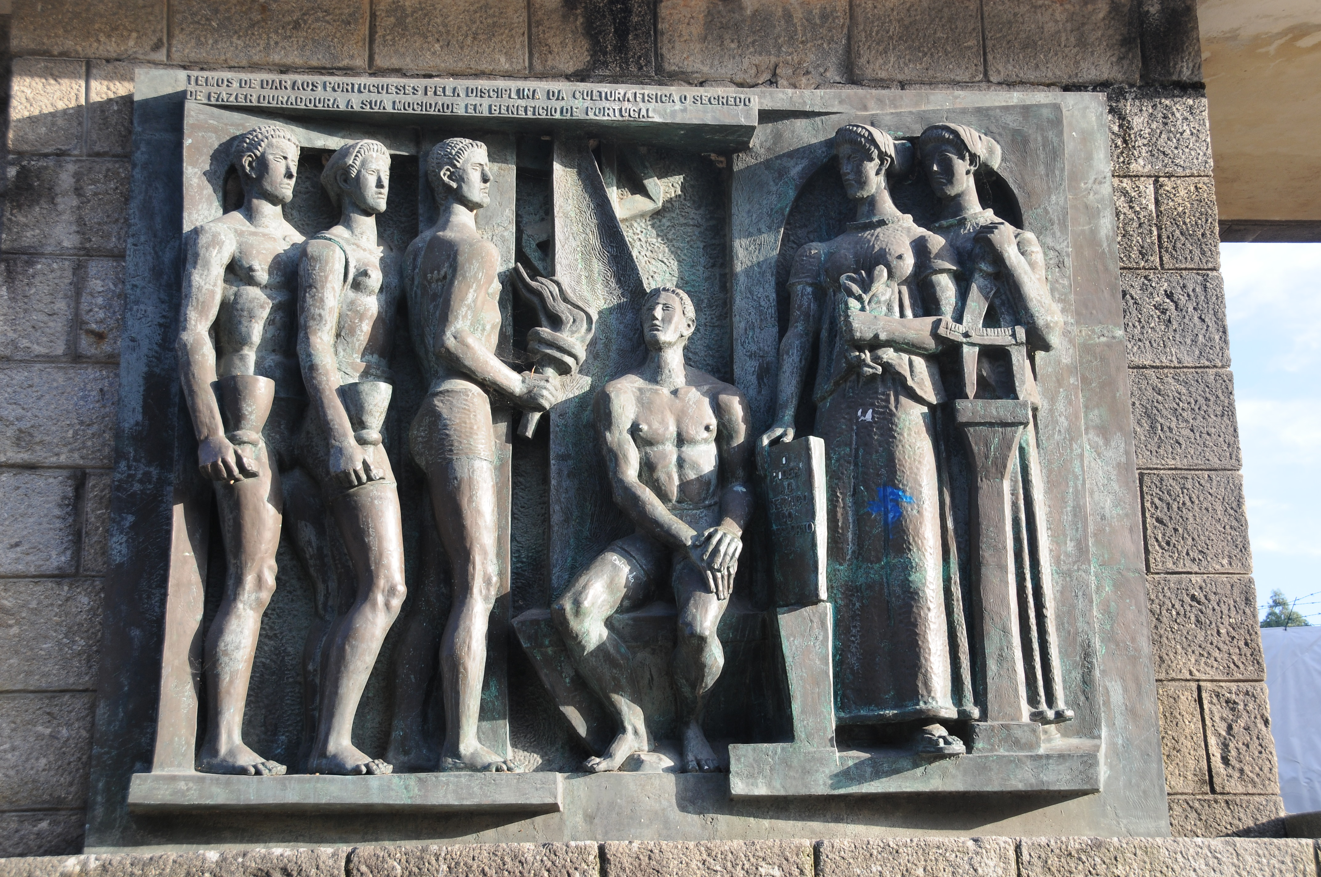 Main entrance of Estádio 1.º de Maio in Braga, Portugal.